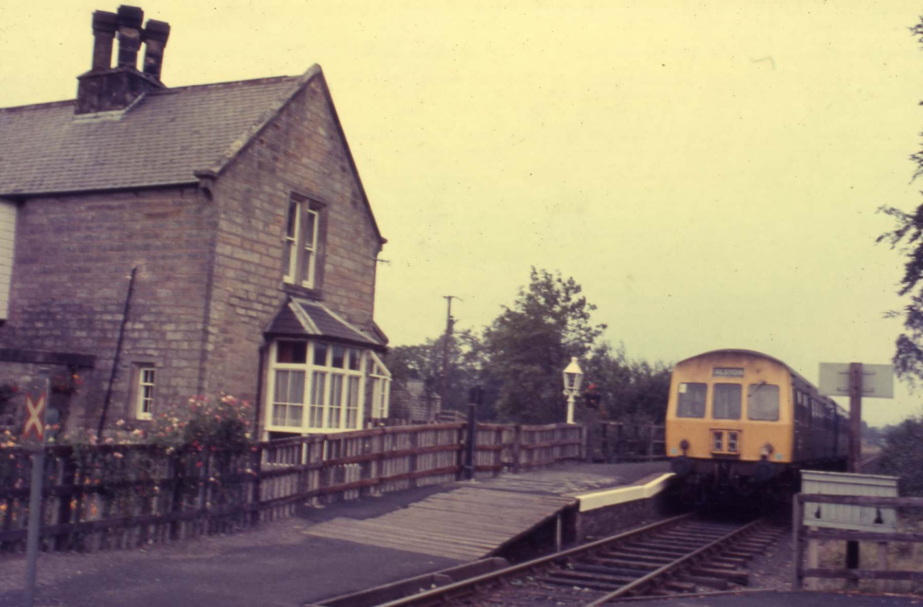 September 1973